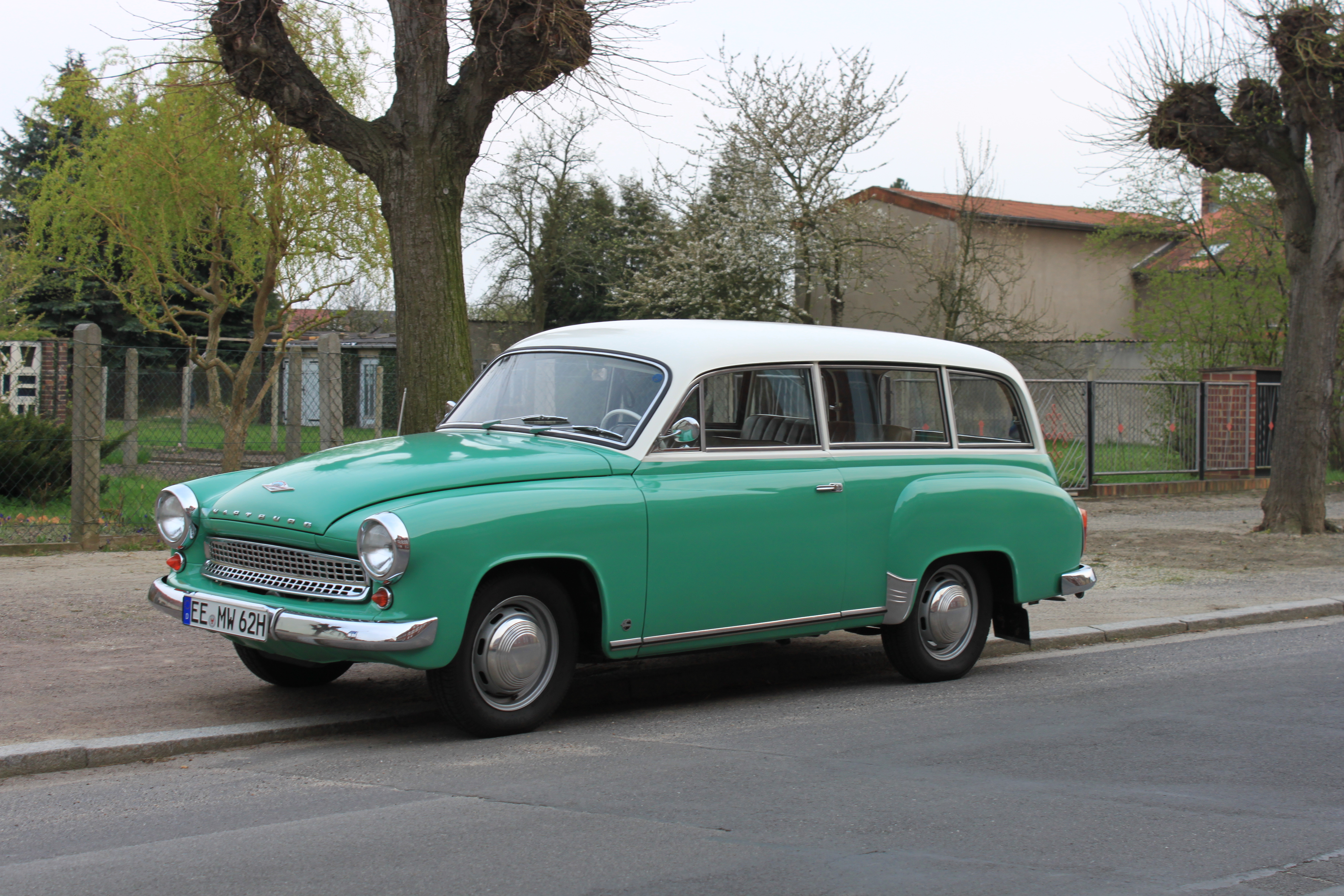 Wartburg 311 combi